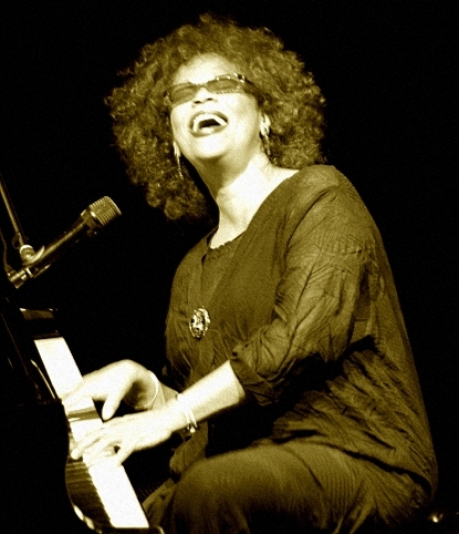 Brazilian singer, pianist and composer Tania Maria.